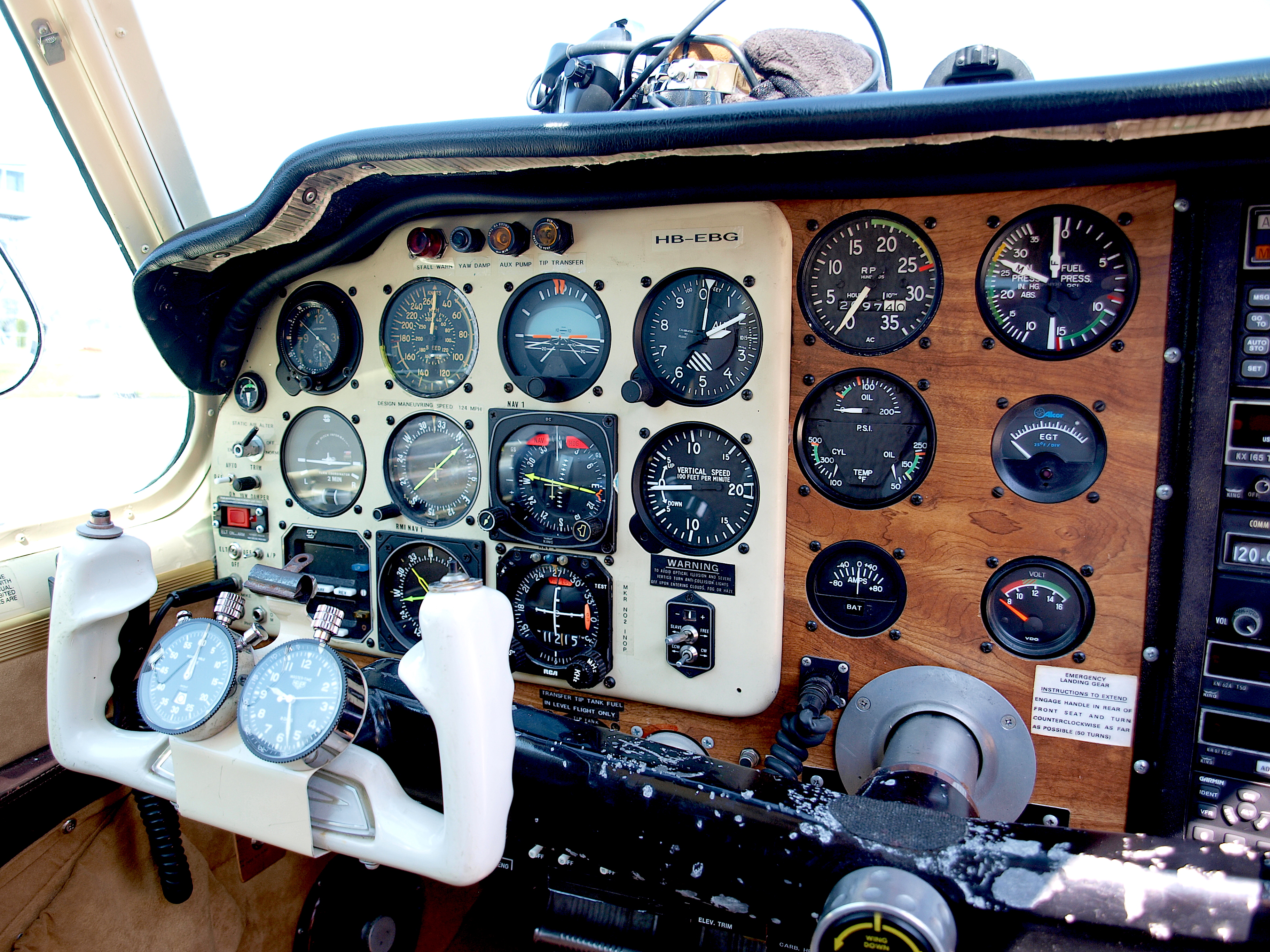 Cockpit of Beechcraft G35, HB-EBG in Ecuvillens, LSGE, Switzerland